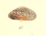 Xenostrobus securis (Lamarck, 1819), Mytilidae, Bivalvia, Mollusca